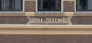 Name on Sophia building